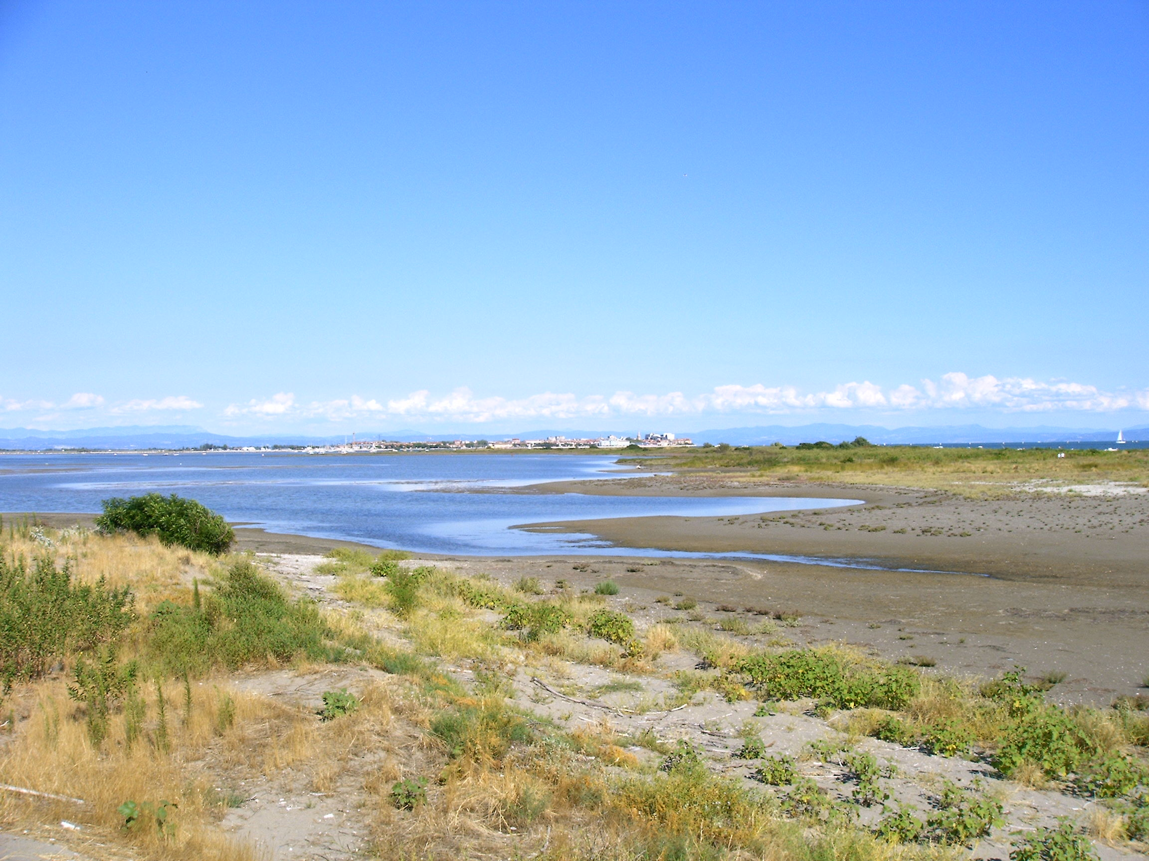 The Banco d'Orio, a small sand island which separetes the lagoon of Grado from the Adriatic sea. Behind there is the town of Grado.